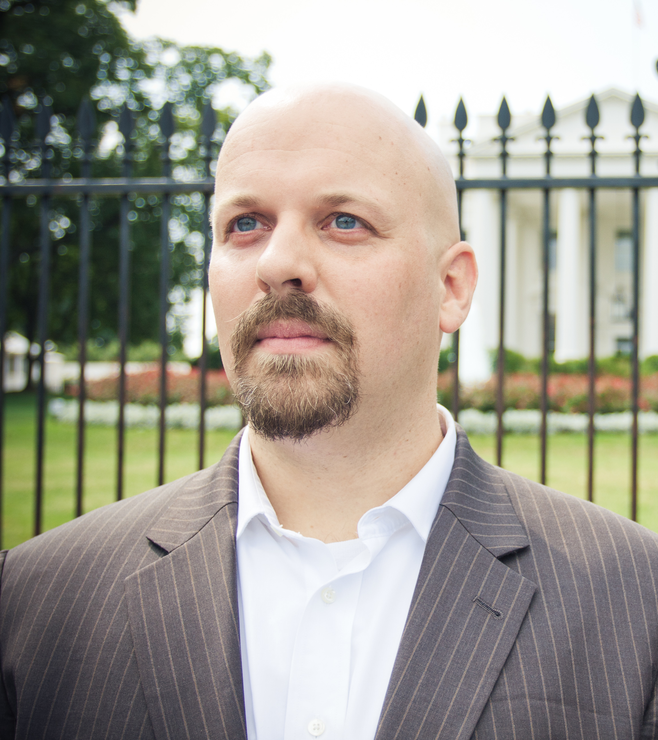 Phil Radford, Executive Director of Greenpeace USA, is Arrested in front of White House WASHINGTON, DC-- Phil Radford, Executive Director of Greenpeace USA, was arrested in front of the White House, in an effort to urge President Obama to reject the Keystone pipeline. She was arrested along with 139 others who also engaged in civil disobedience on August 29th, 2011. From August 20th-September 3rd, hundreds of people are sitting-in at the White House to tell President Obama to reject the Keystone XL tar sands pipeline. Visit for more details. Photo Credit: Josh Lopez